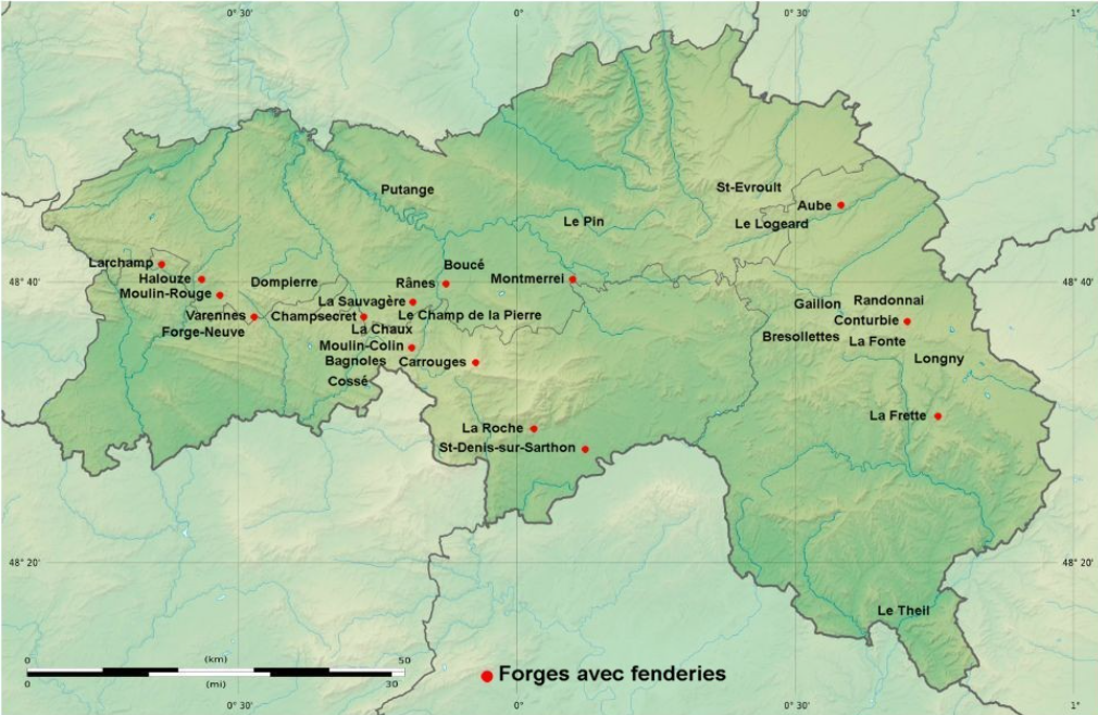 Orne, carte des forges et des fenderies